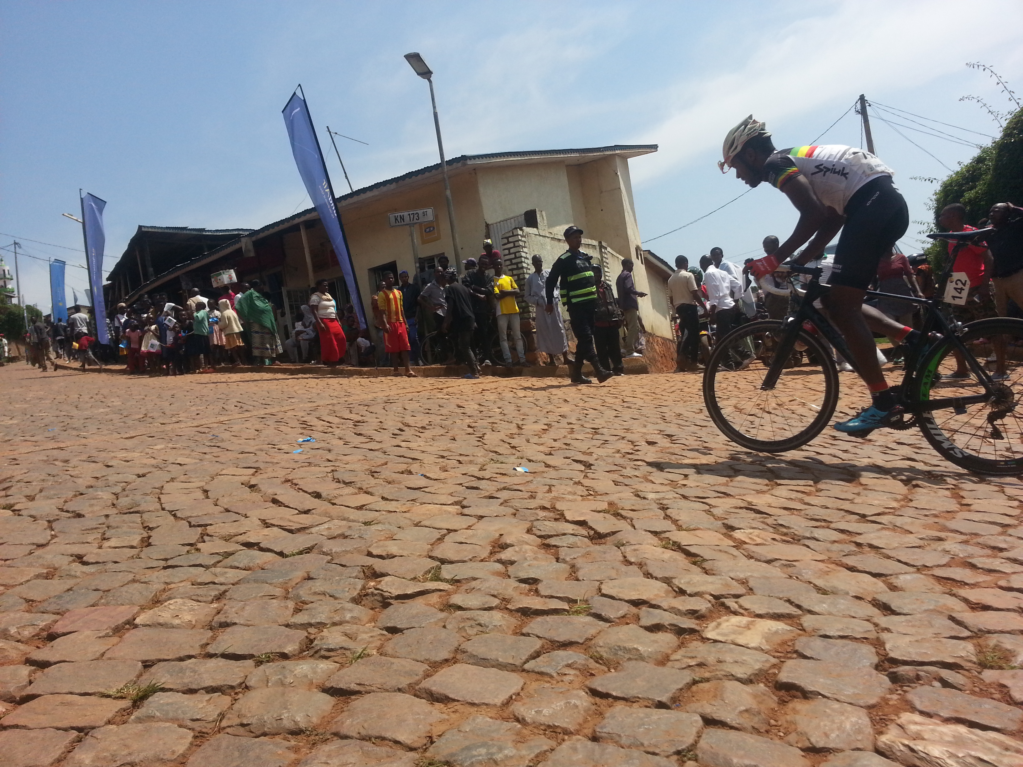 Kinyarwanda: Igare This is an image with the theme "Africa on the Move or Transport" from: Rwanda